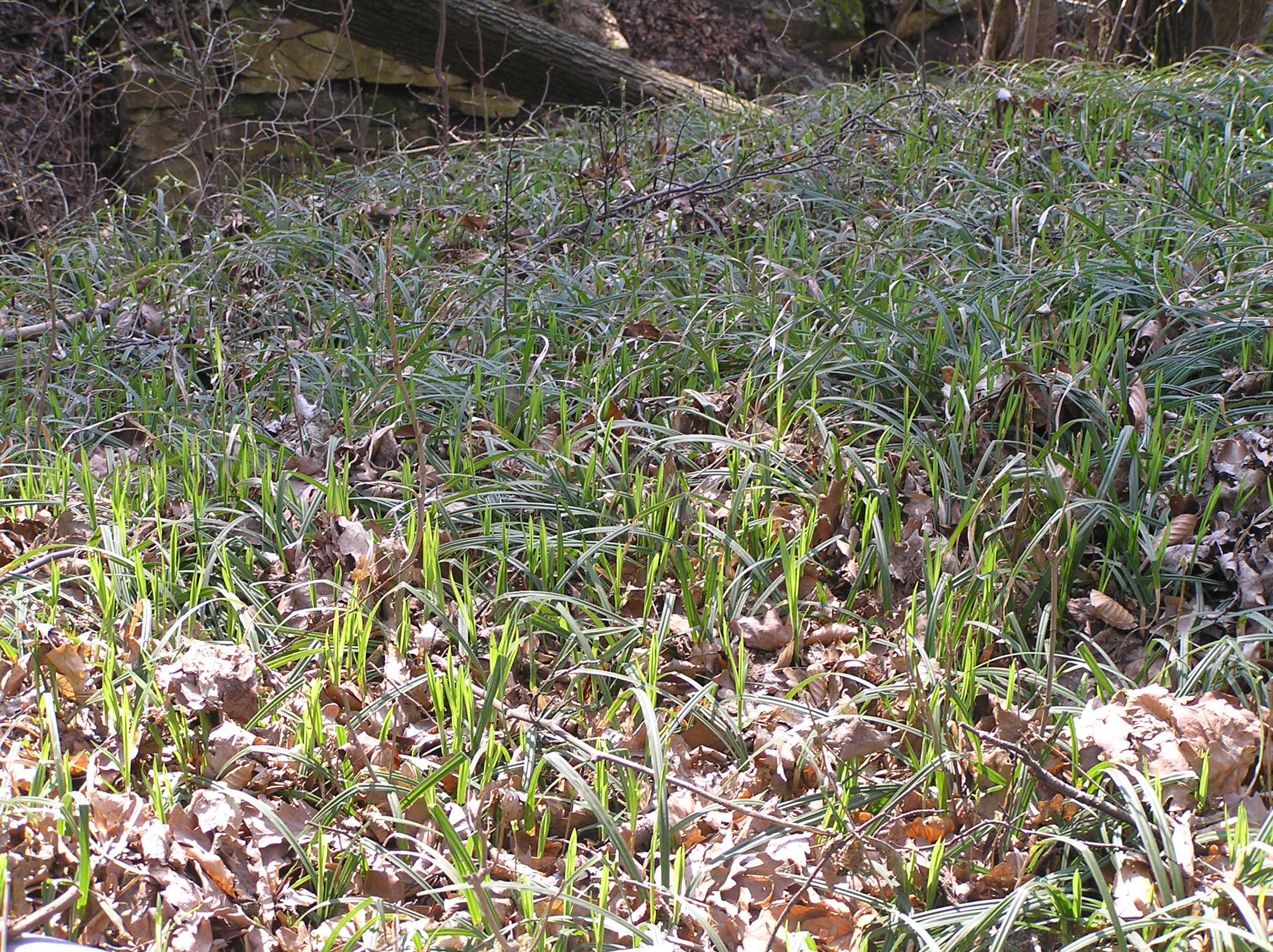 Carex pilosa, between Choceň and Brandýs nad Orlicí, Czech Republic